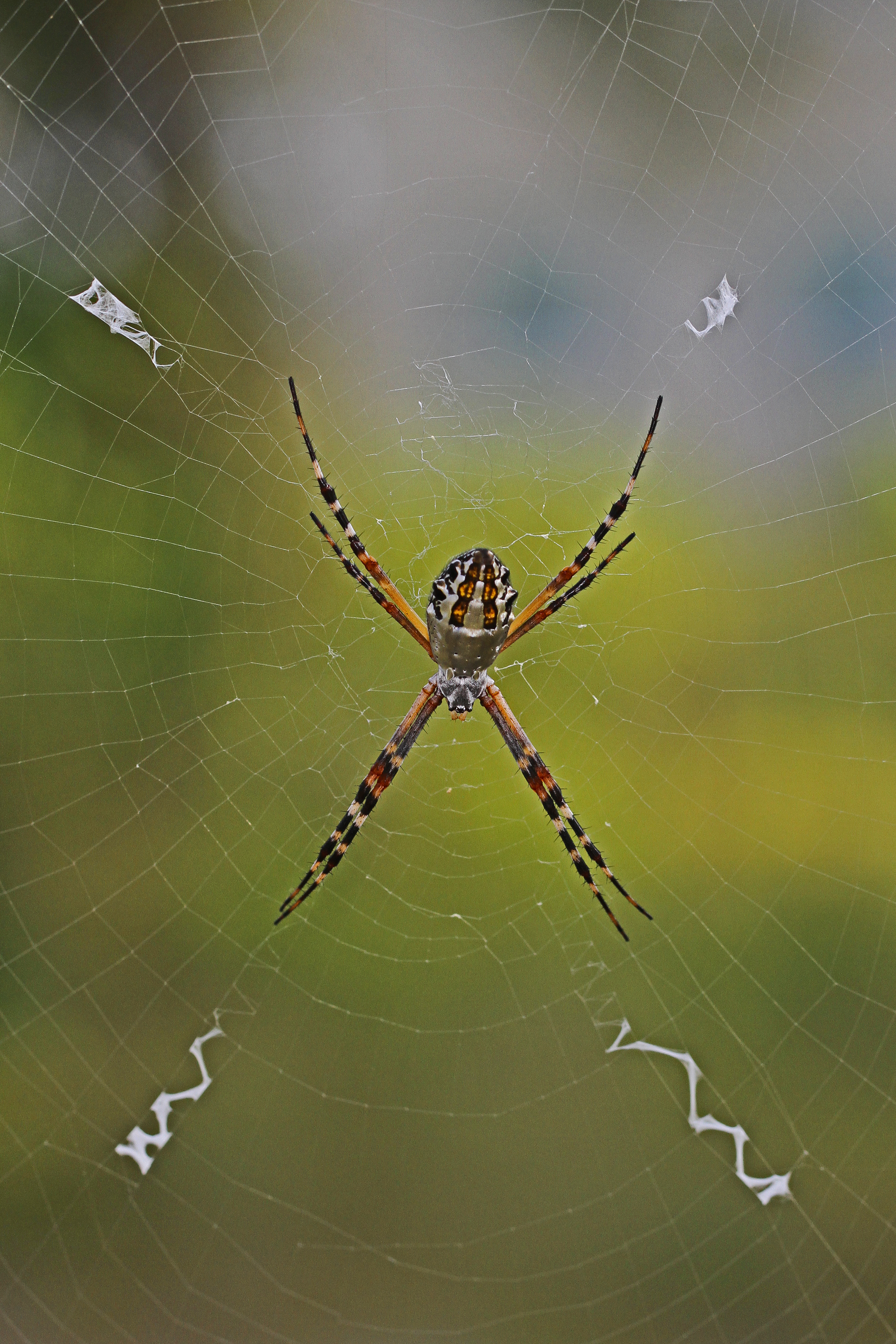 Florida Argiope - Argiope florida, Archbold Biological Station, Venus, Florida